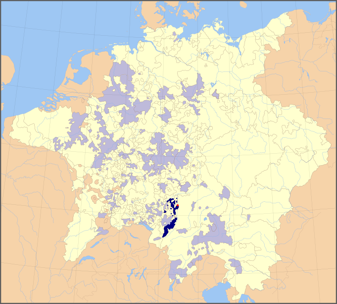 Map of the Holy Roman Empire, 1648, with the territories belonging to the prince-bishop of Augsburg highlighted